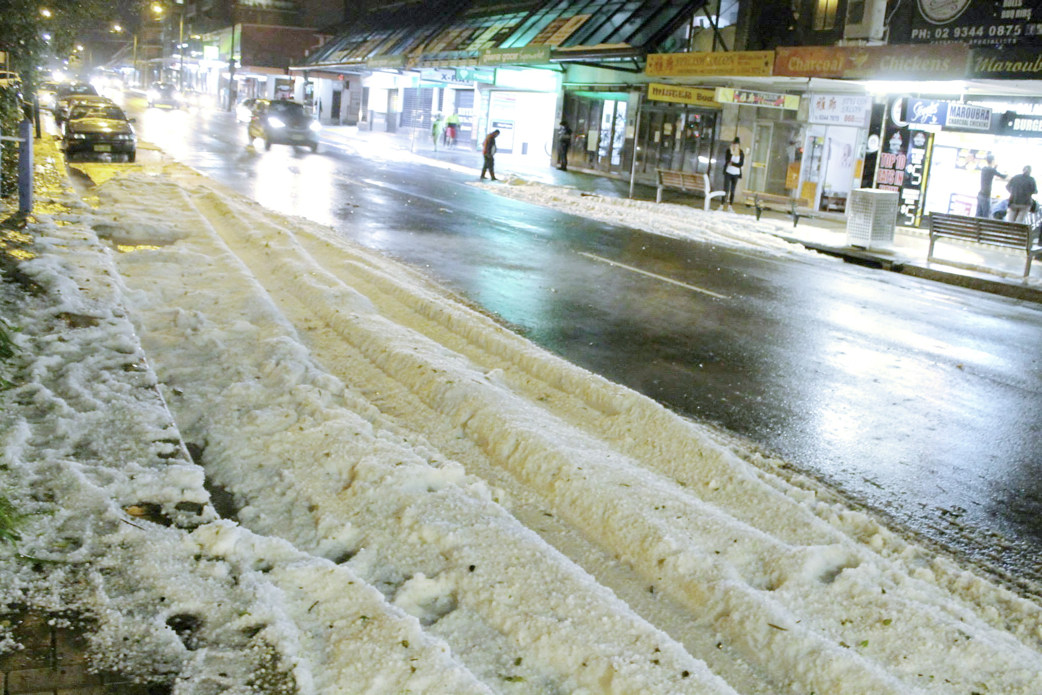 Hailstorm on April 2015 in Maroubra, Sydney.